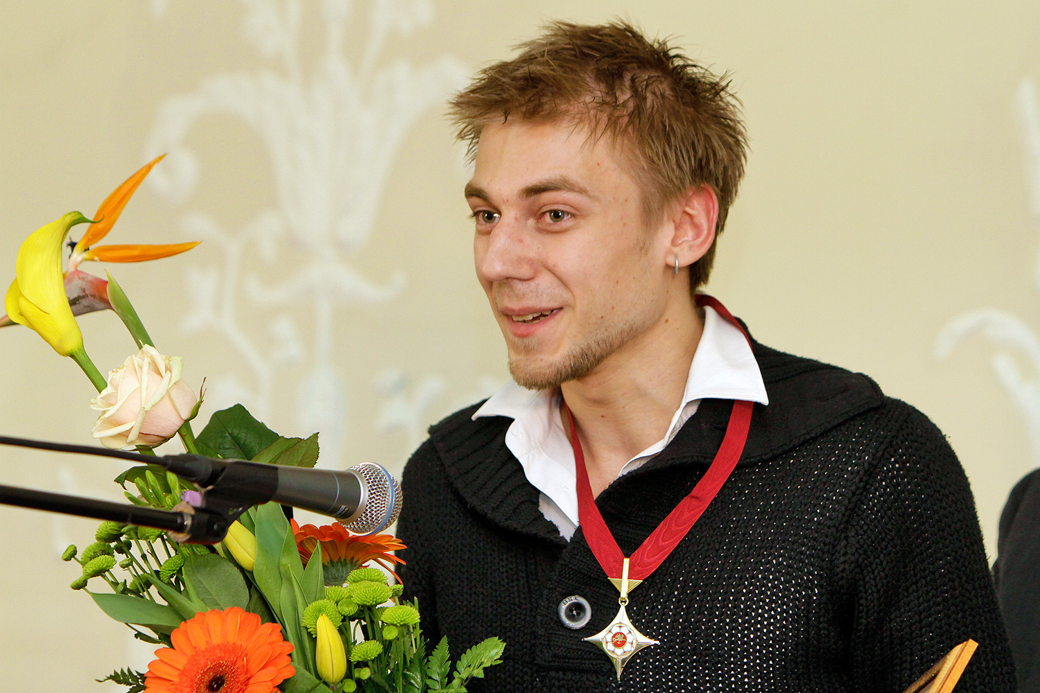 Actor Daumantas Ciunis